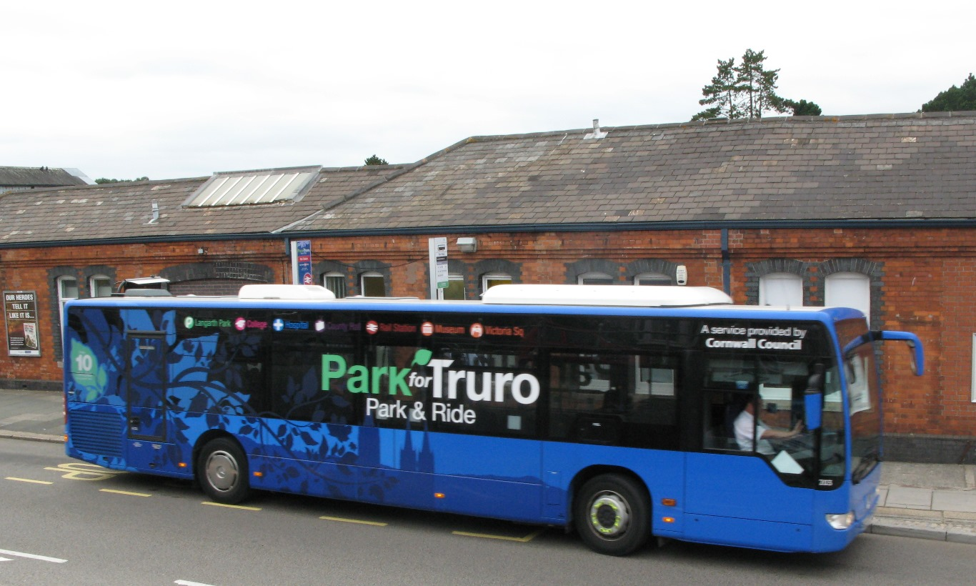 A Western Greyhound Mercedes-Benz Citaro bus (number 203, registration WK08 ESV) at Truro railway station with a park and ride service.